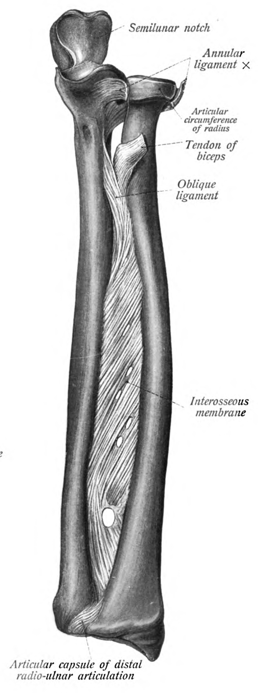 An anatomical illustration from the 1909 edition of Sobotta's Atlas and Text-book of Human Anatomy with English terminology.